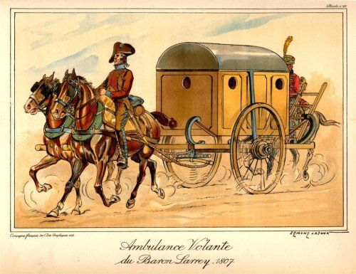 The Flying Ambulances were developed by French battlefield surgeon Dominque-Jean Larrey to rapidly transport the wounded from the battlefield to field hospitals located two miles to the rear of the main battlelines. Prior to their creation, the wounded would not be collected until the end of the battle or they would have to limp back to the base camp and where they would be attended to according to their social rank (aristocratic officers were treated first, with common soldiers treated last) rather than the seriousness of their wounds leaving the most critically injured to die on the field.